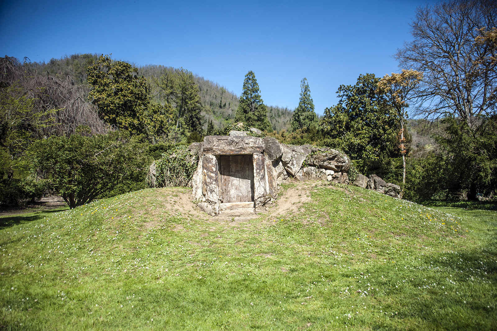 The Hermit’s Grotto, Monumental Garden of Valsanzibio - Villa Barbarigo Pizzoni Ardemani - Valsanzibio di Galzignano Terme, Padua, Italy.